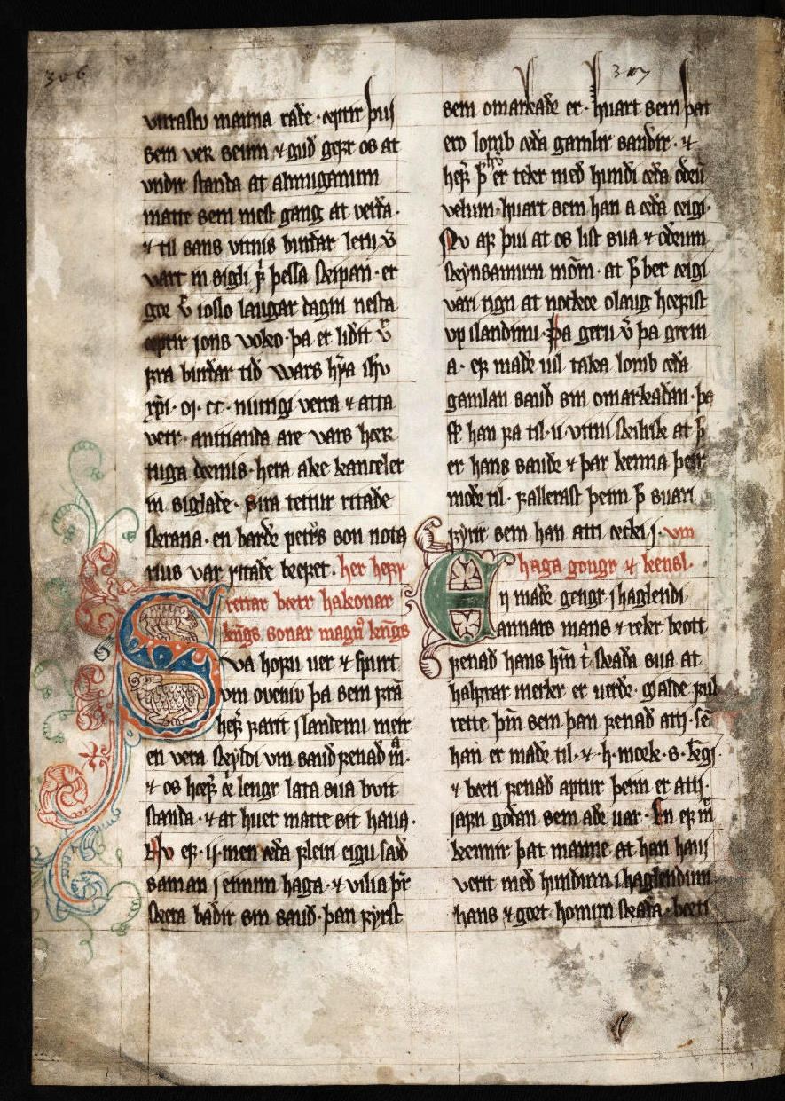 The Sheep Letter for the Faroe Islands of 24 June 1298, in the "Book of Lund".